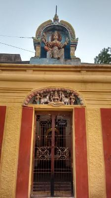 Thanjavur badrakaliamman temple தஞ்சாவூர் பத்ரகாளியம்மன் கோயில்